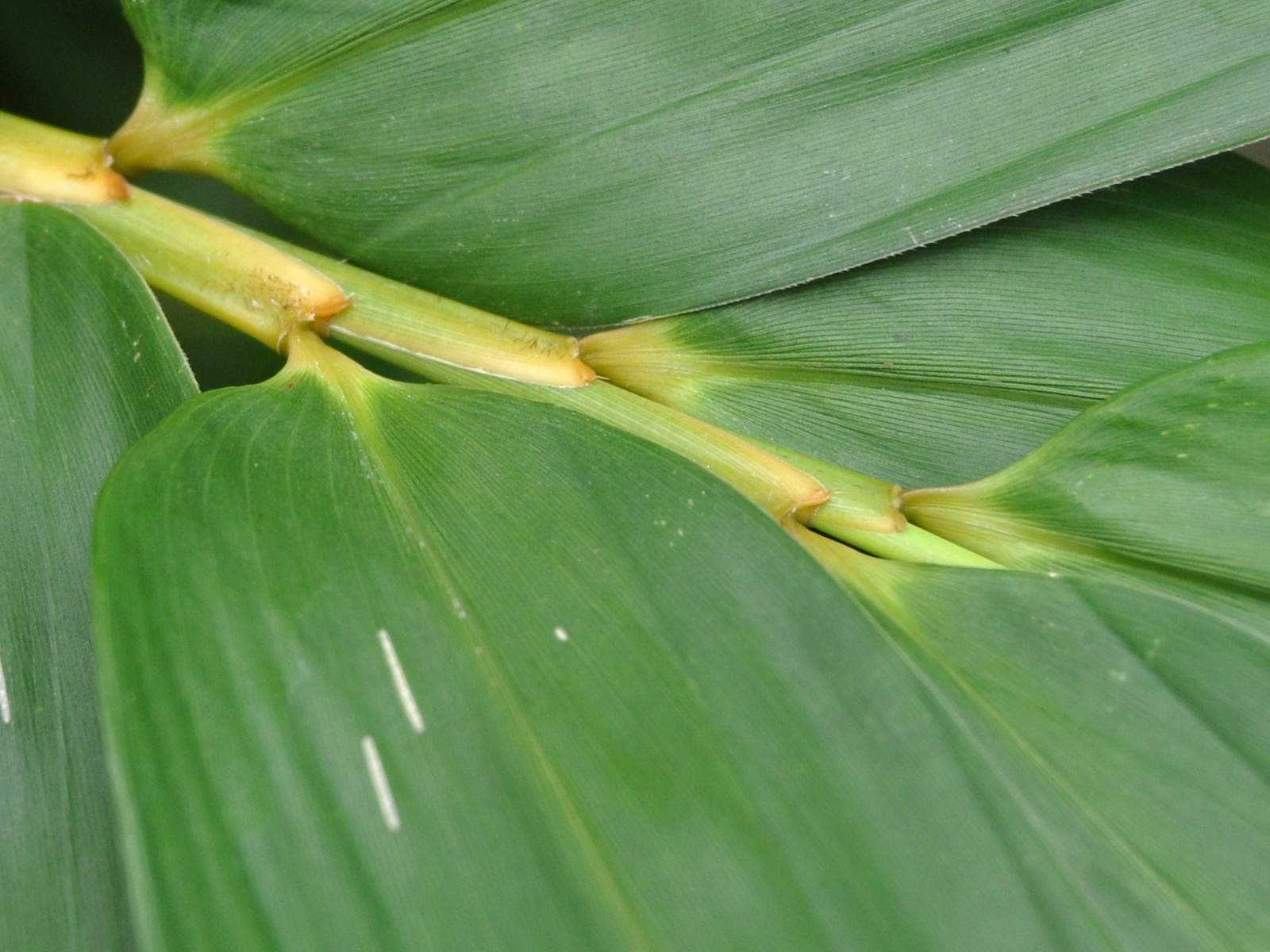 Common bamboo, Bambusa vulgaris; close up to leaf sheaths. From Bogor, West Java, Indonesia.